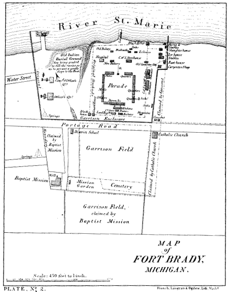 Old Fort Brady map. c. 1870, Sault Ste Marie MI